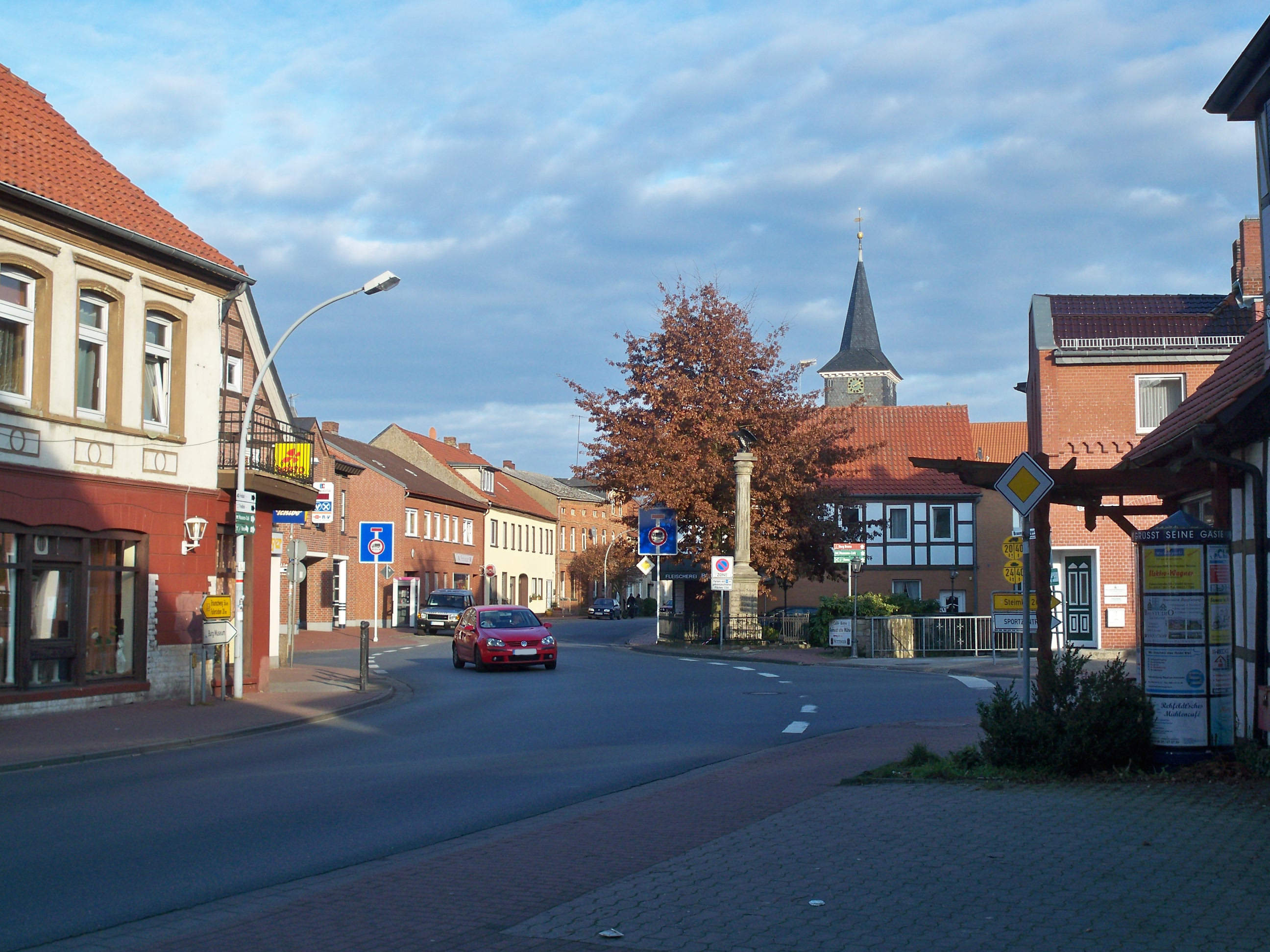 Brome, Lower Saxony, village centre, facing eastwards